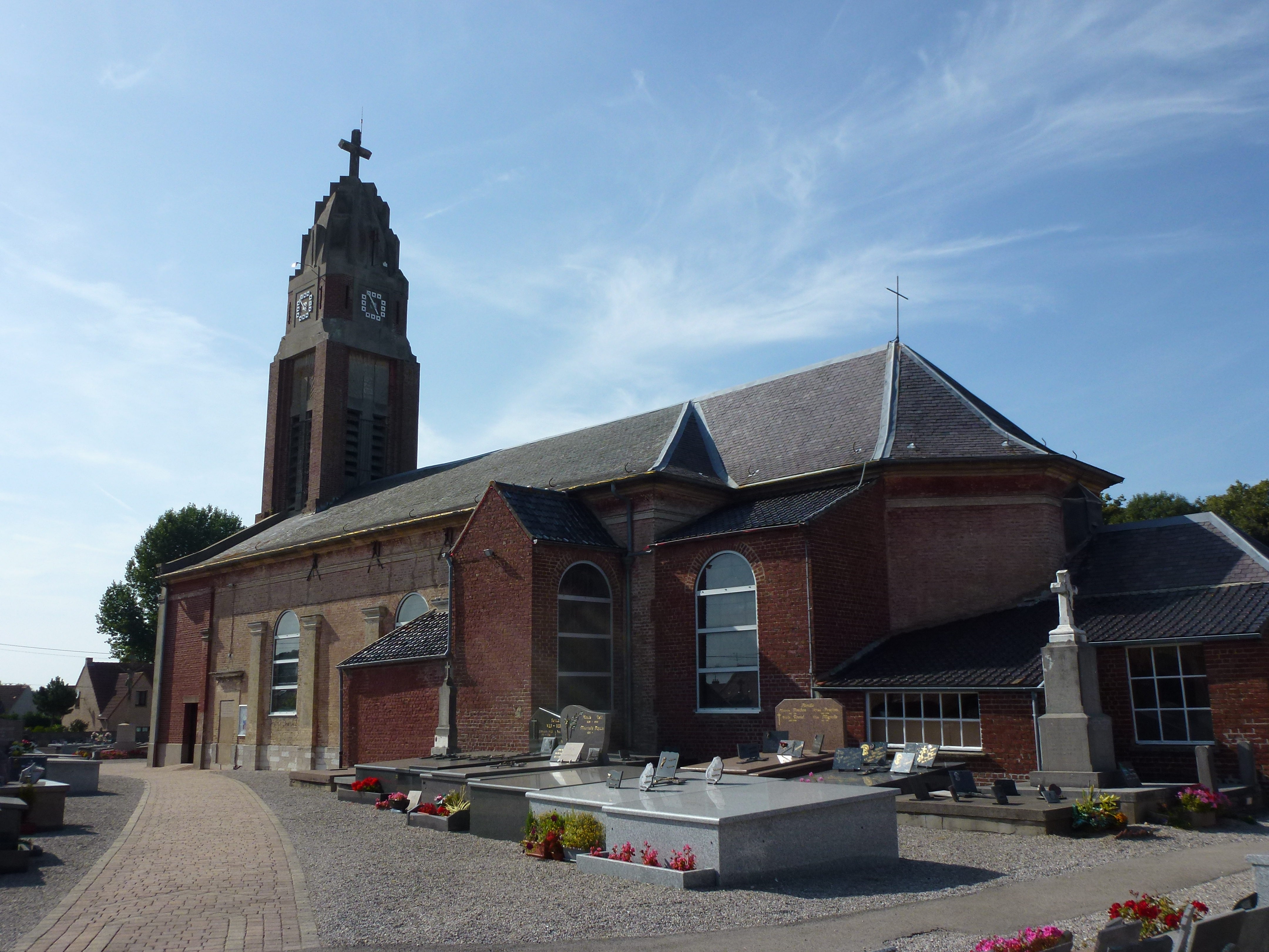 Nortkerque (Pas-de-Calais) église Saint-Martin